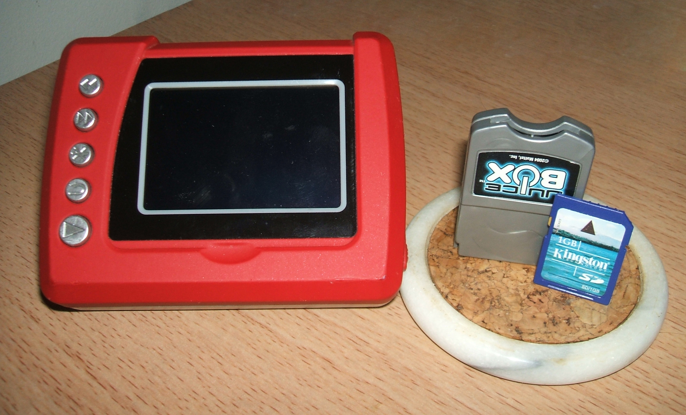 JuiceBox (red, SD card adapter and 1GB card shown)